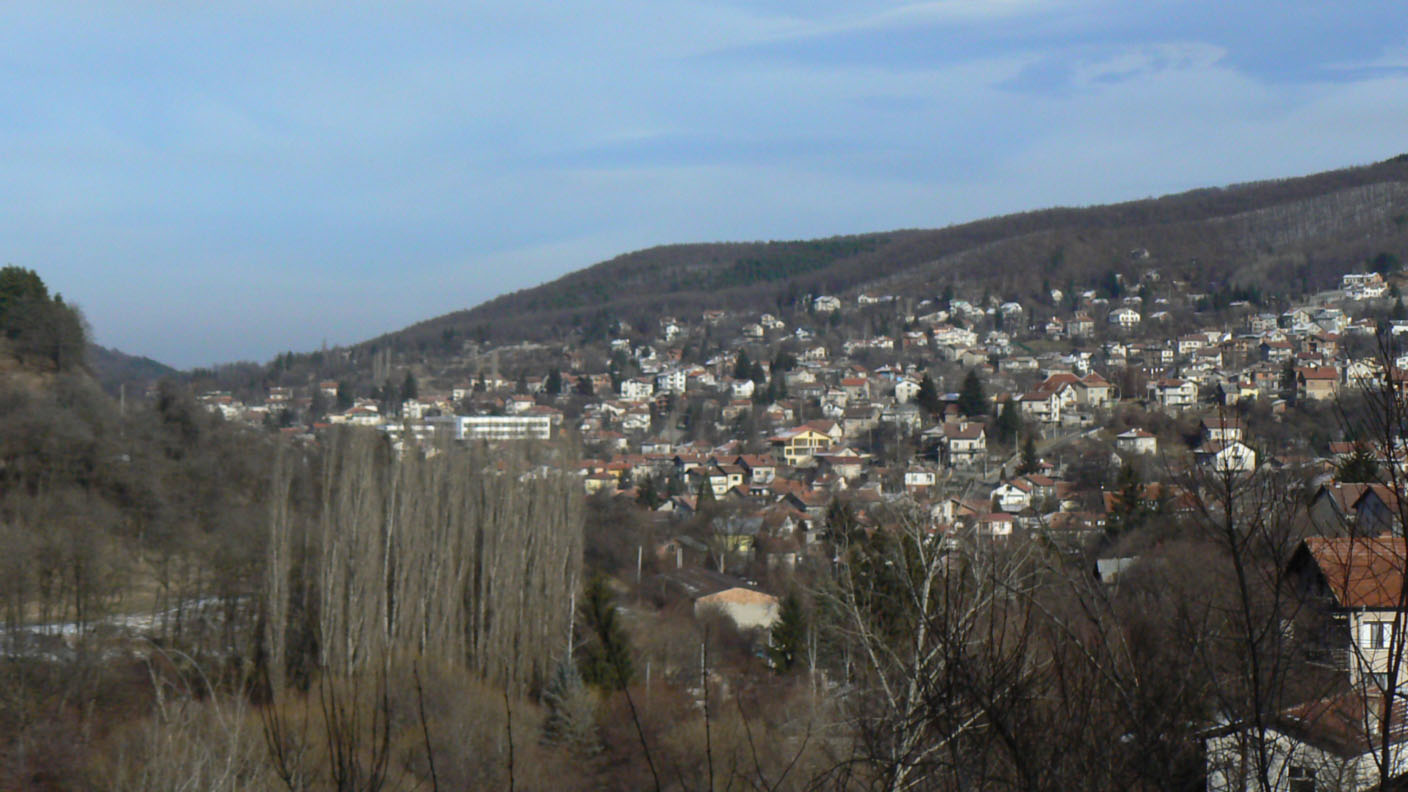 View to Vladaya village, near Sofia. Bulgaria.